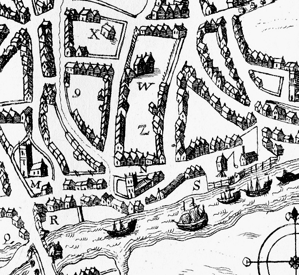 Details from Speed's 1610 Map of Ipswich showing location of former Blackfriars (W) in relation to St Mary-at-Key (N) and St Peter's (M)